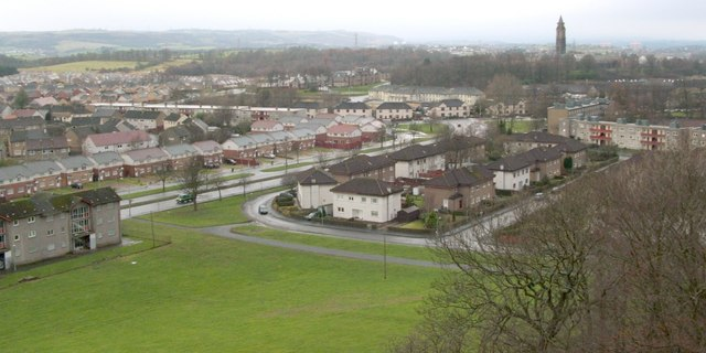 View from Crookston Castle - WSW The viewpoint for this picture was the top of Crookston Castle. The nearest houses at the left-hand edge of the image stand alongside Brockburn Road. The closest houses just right of centre, where a car is rounding a corner, are on Towerside Crescent. [The tower visible in the right-hand side of the image belongs to Leverndale Hospital, which was built in 1895, and was formerly known as Hawkhead Asylum: At the time of writing, Leverndale Hospital, which now includes more recent buildings, was still in use, and served as a psycho-geriatric unit.] The distant hills in the left of the image are the area around Gleniffer Braes.